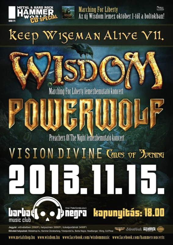 This flyer was made for the Keep Wiseman Alive VII show in 2013.